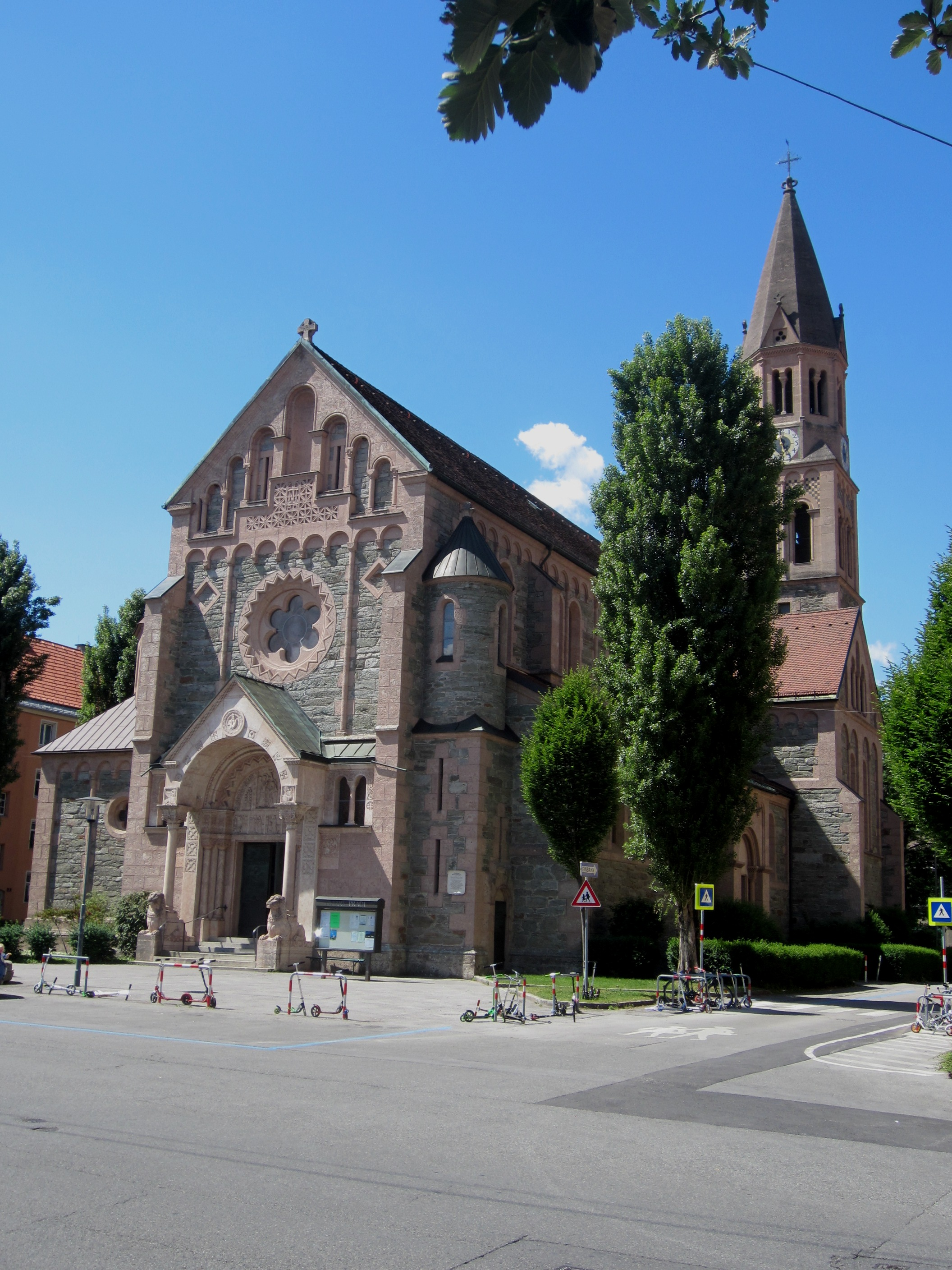 Pradler Pfarrkirche, Innsbruck This media shows the remarkable cultural object in the Austrian state of Tyrol listed by the Tyrolean Art Cadastre with the ID 16406. (on tirisMaps, pdf, more images on Commons, Wikidata)